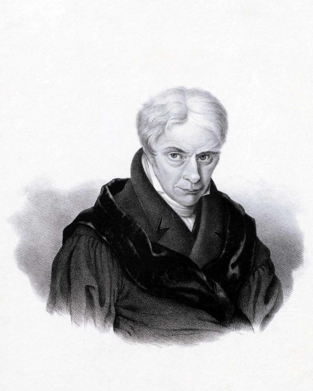 Lucas Suringar (1770-1833) Dutch Reformed theologian